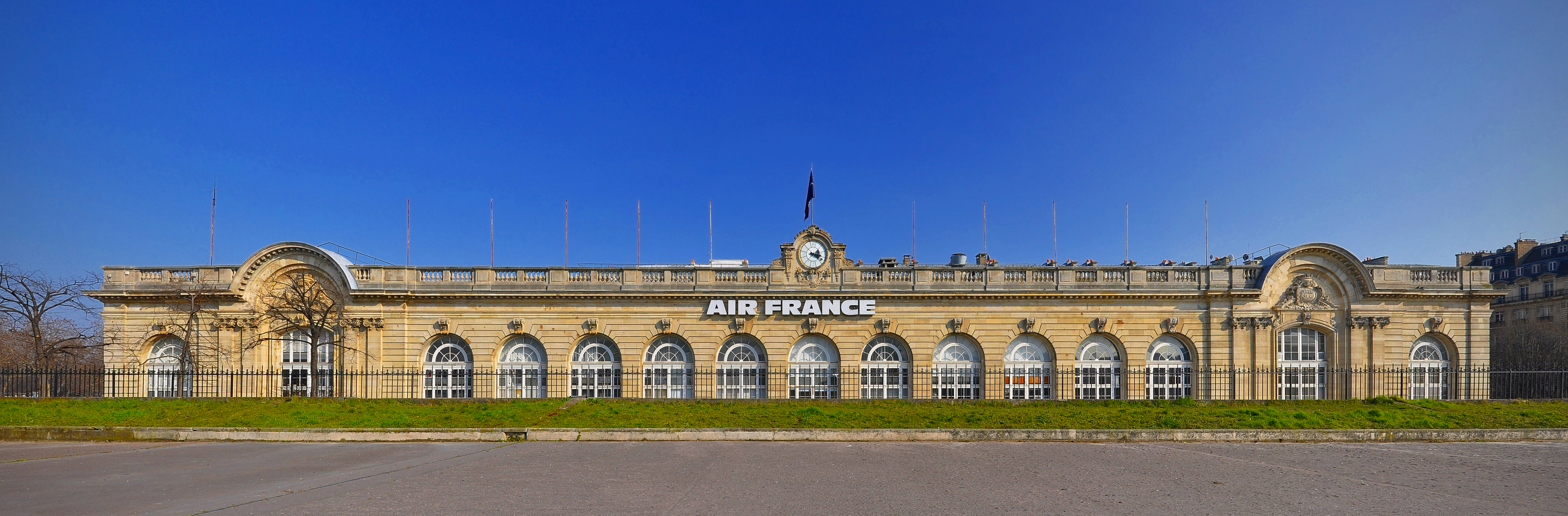 Gare des Invalides and Air France aérogare in Paris 7th arrondissement in France.